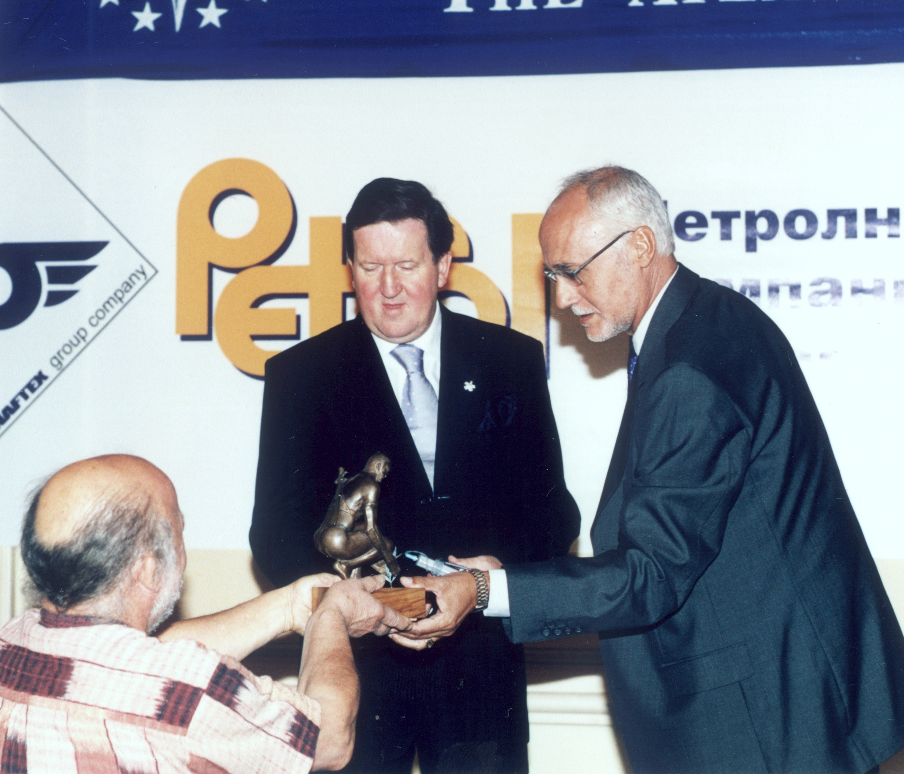 Lord Robertson receiving his Atlantic Solidarity Award bestowed by the Manfred Wörner Foundation